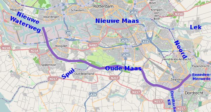 Oude Maas, Netherlands location map